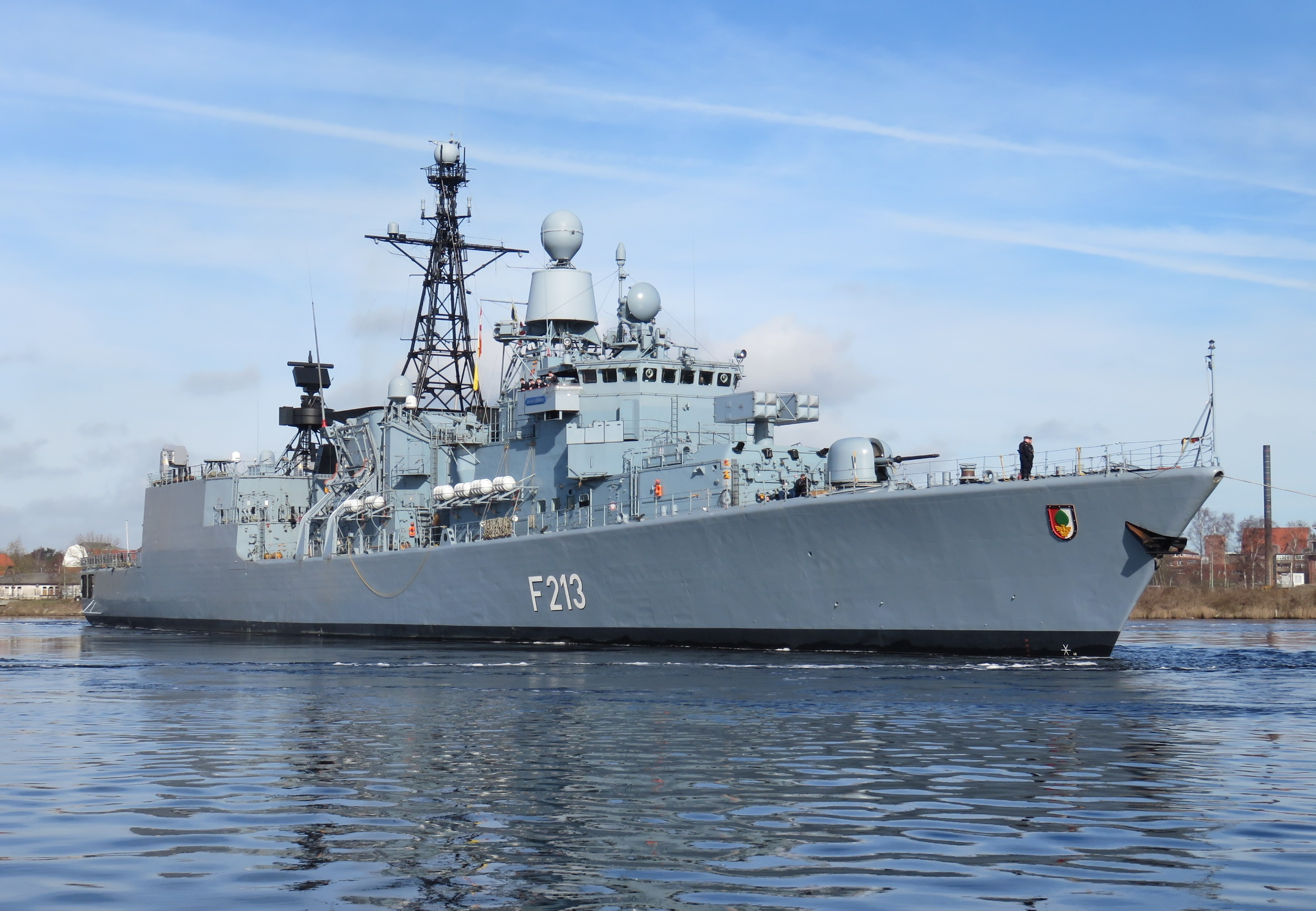 German frigate Augsburg at the deperming range in Wilhelmshaven